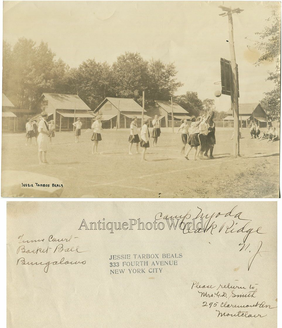 Photo by Jessie Tarbox Beals of Camp Nyoda girls playing basketball near the bungalows